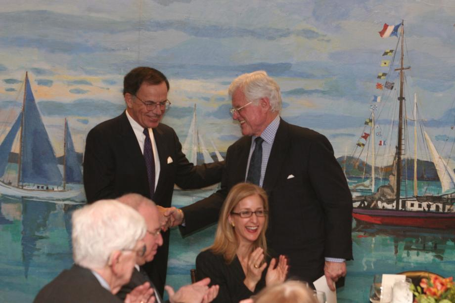 Senator Paul Kirk (left) and his predecessor, Senator Ted Kennedy (right)